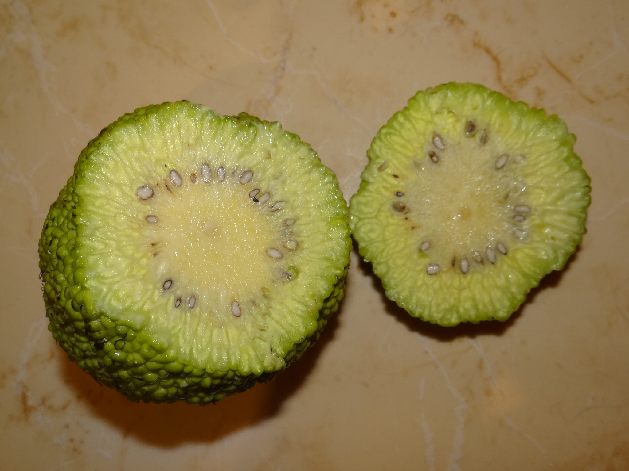 Osage orange, Annaba, Algeria